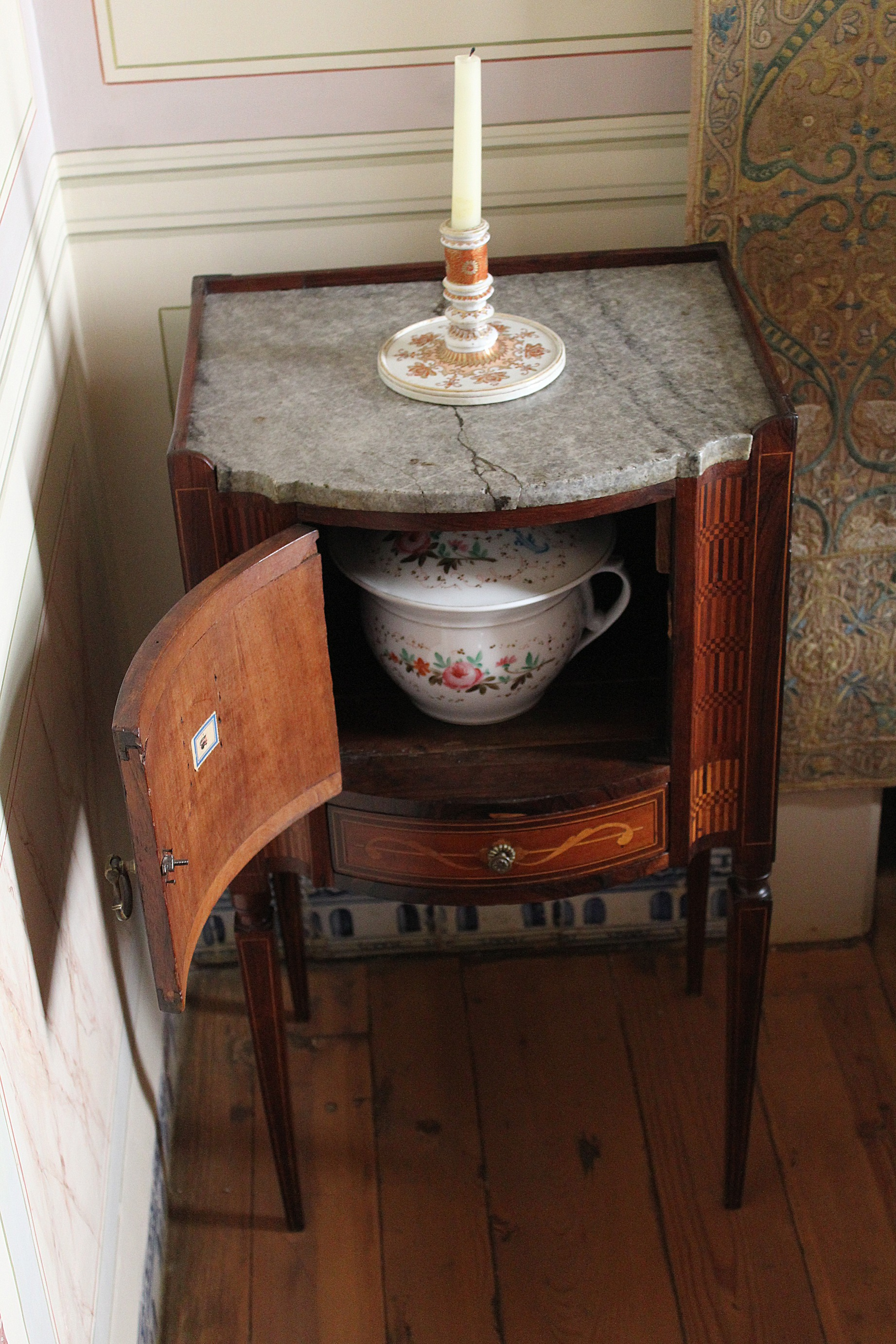 Lisbon, museu de Artes Decorativas, chamber pot